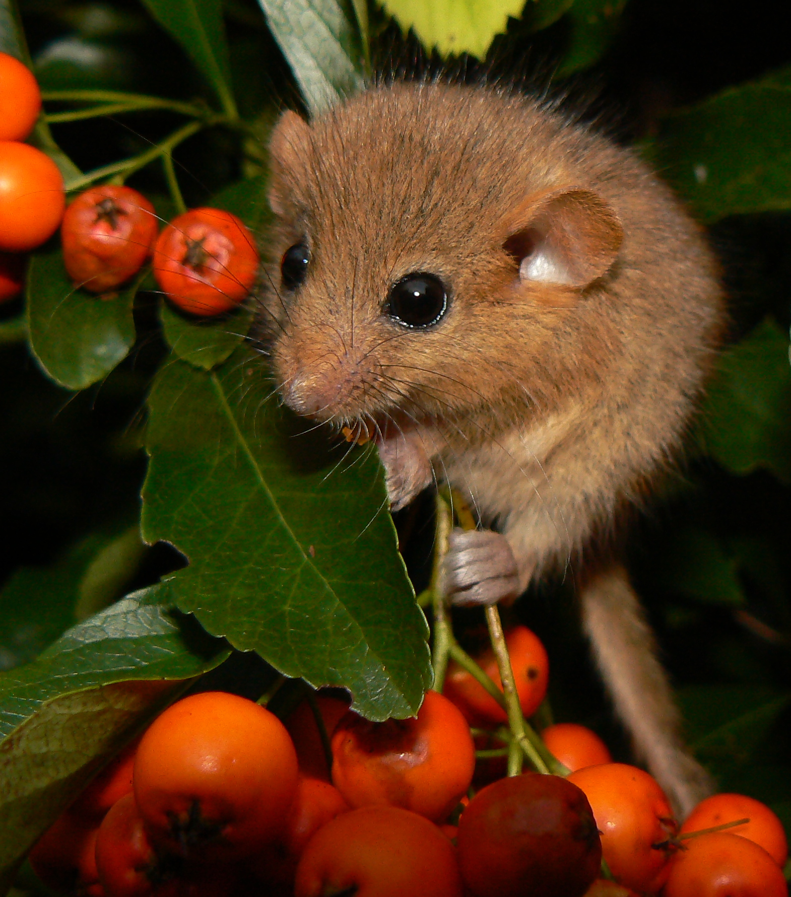 Hazel dormouse (Muscardinus avellanarius) on a Firethorn (Pyracantha coccinea)